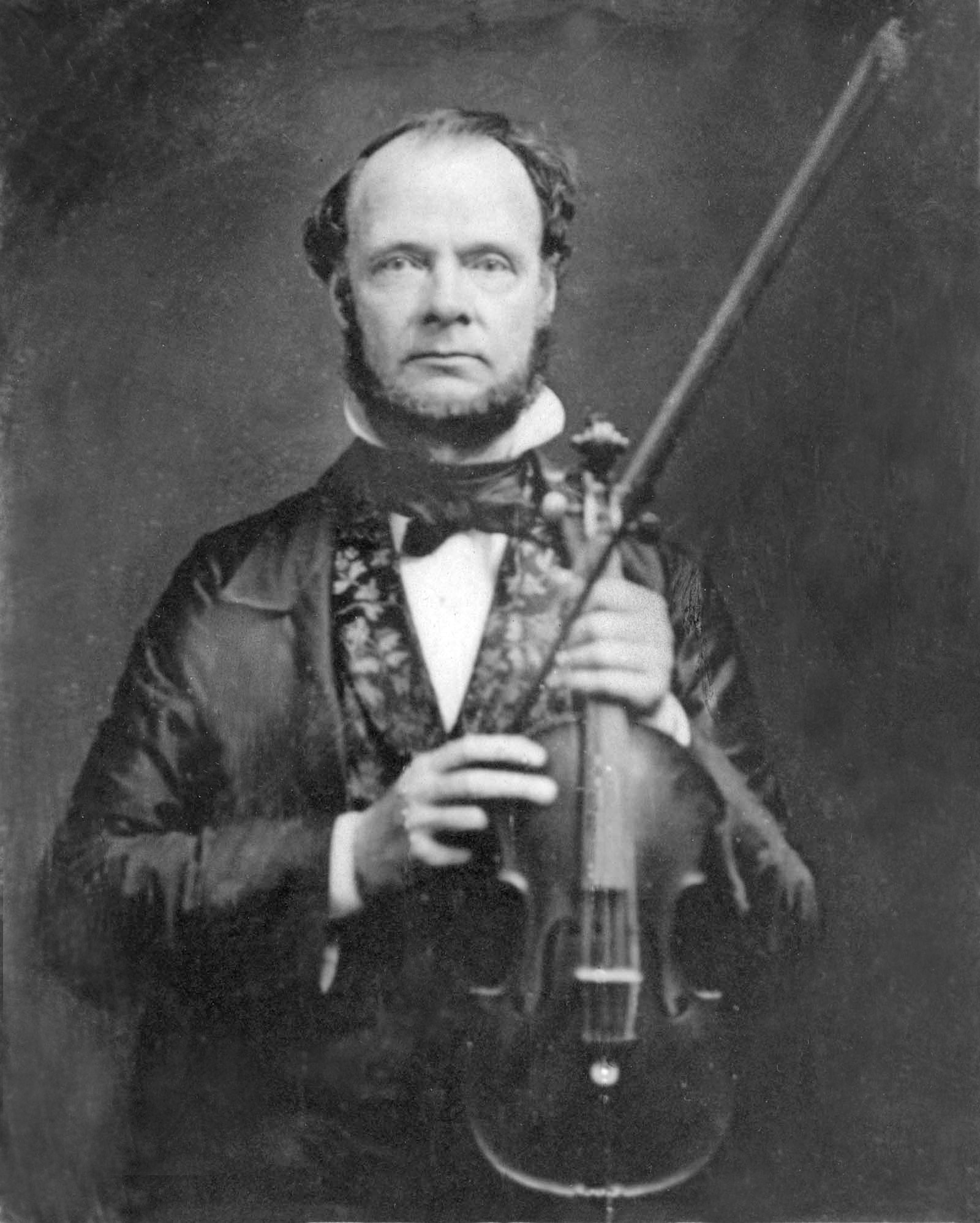 Urelli Coreli Hill - The New York Philharmonic Archives